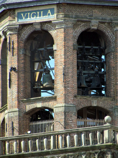 Carillon in cupola of Lebuinus Church, Deventer, NL